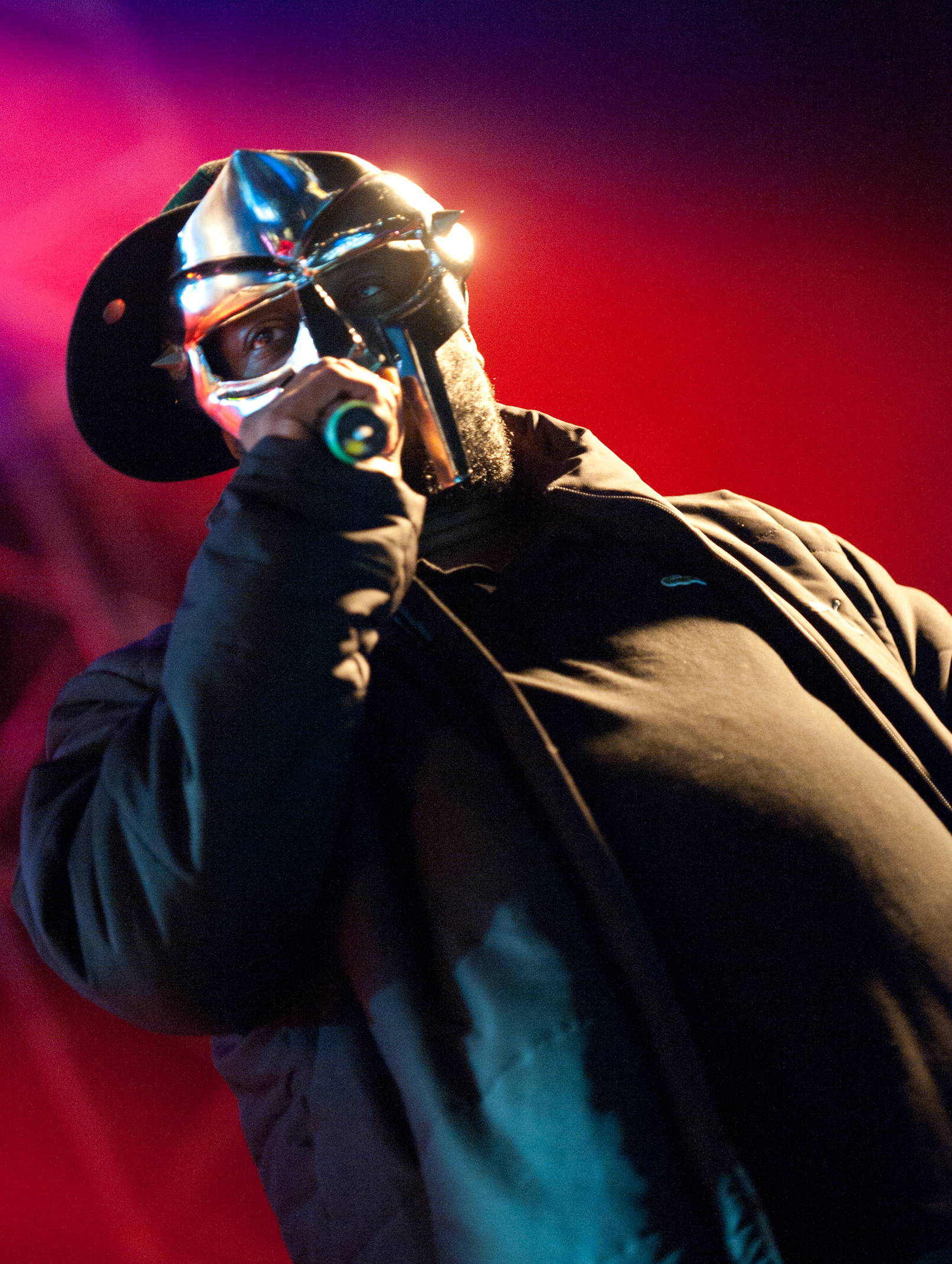 MF Doom, taken at Hultsfredsfestivalen 2011